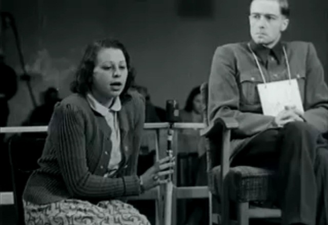 Joachim Peiper (1915-1976) with female translator, Malmedy massacre War Crimes Trial